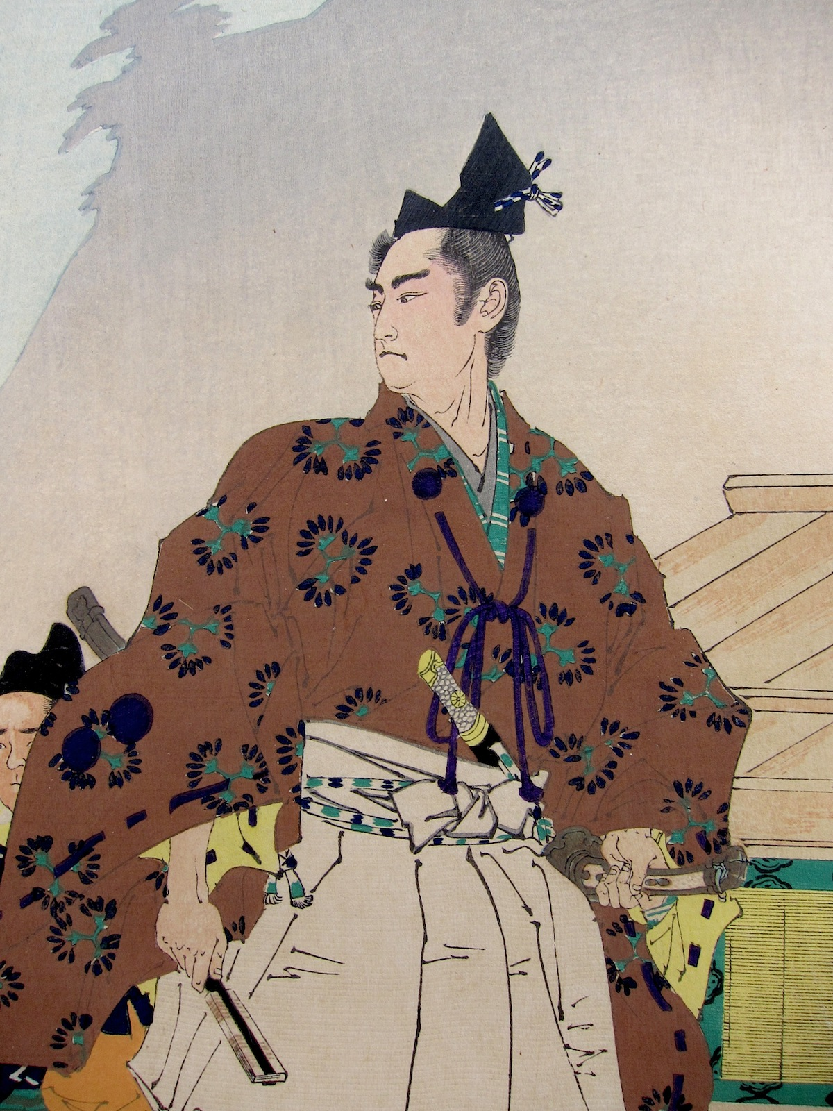 A part of "Kusunoki Masatsura Ben no Naishi o sukū zu" ("Kusunoki Masatsura rescued Lady Ben no Naishi") by Mizuno Toshikata